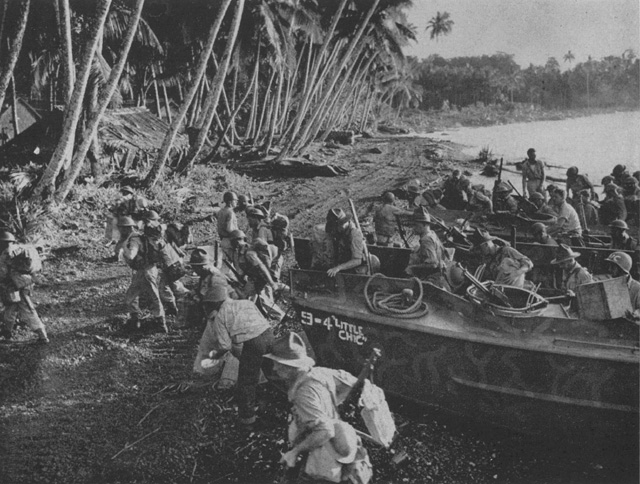 New Zealand soldiers of the 14th Bde land at Baka Baka, Vella Lavella to relieve the U.S. 35th Infantry Regiment, 25th Division, on September 17, 1943.